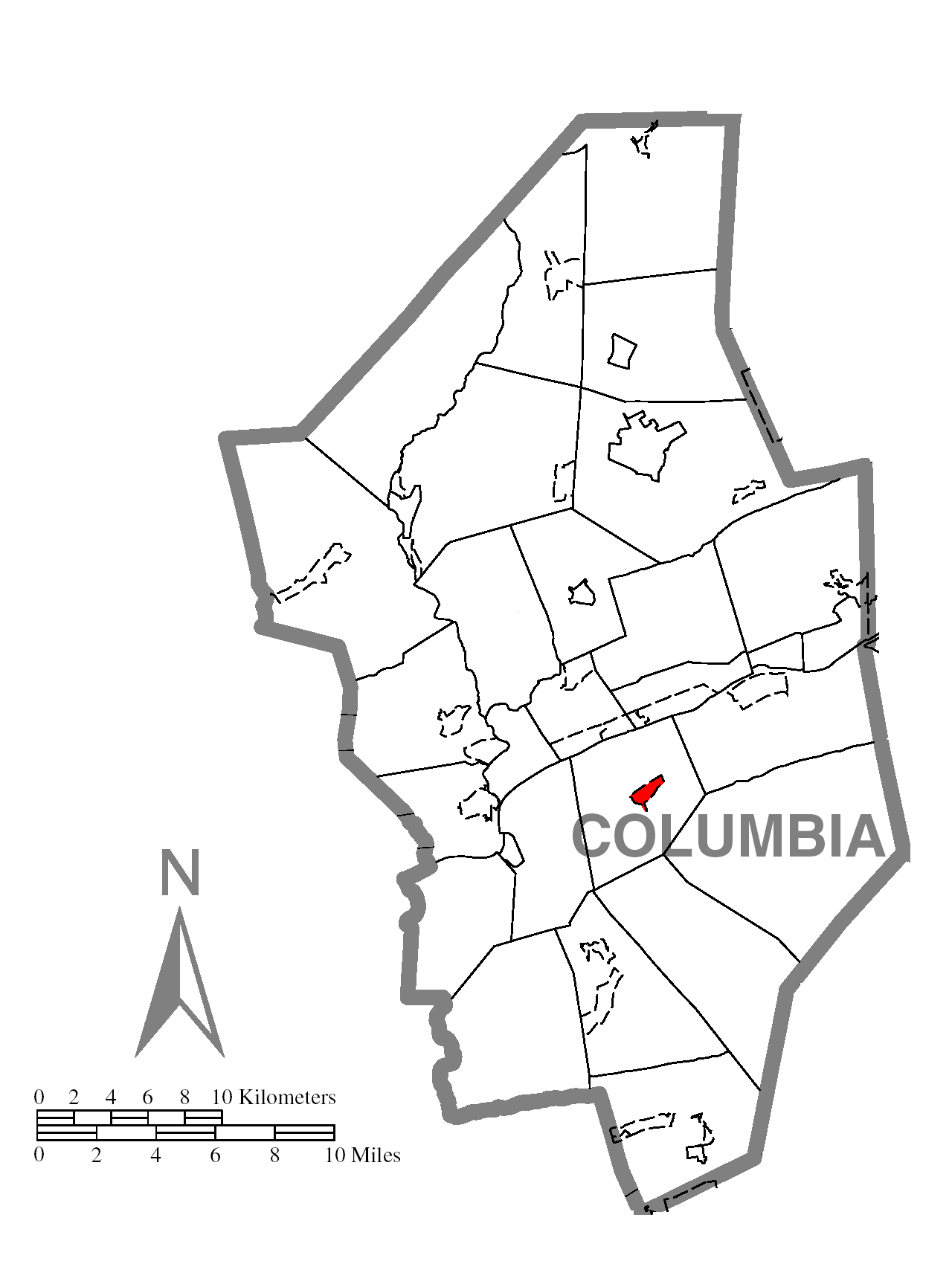 A map of Columbia County showing Mainville, Pennsylvania (alternate) highlighted on the map.